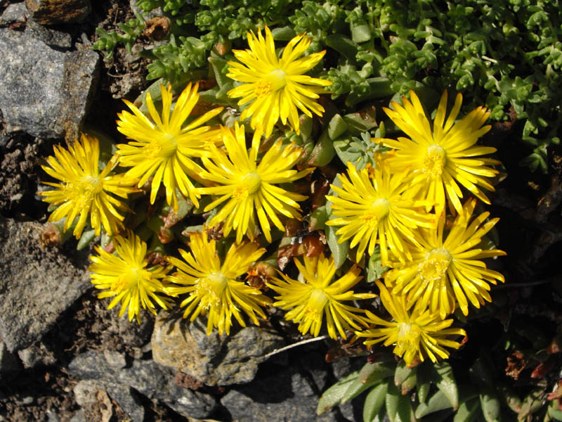 Chasmatophyllum musculinum